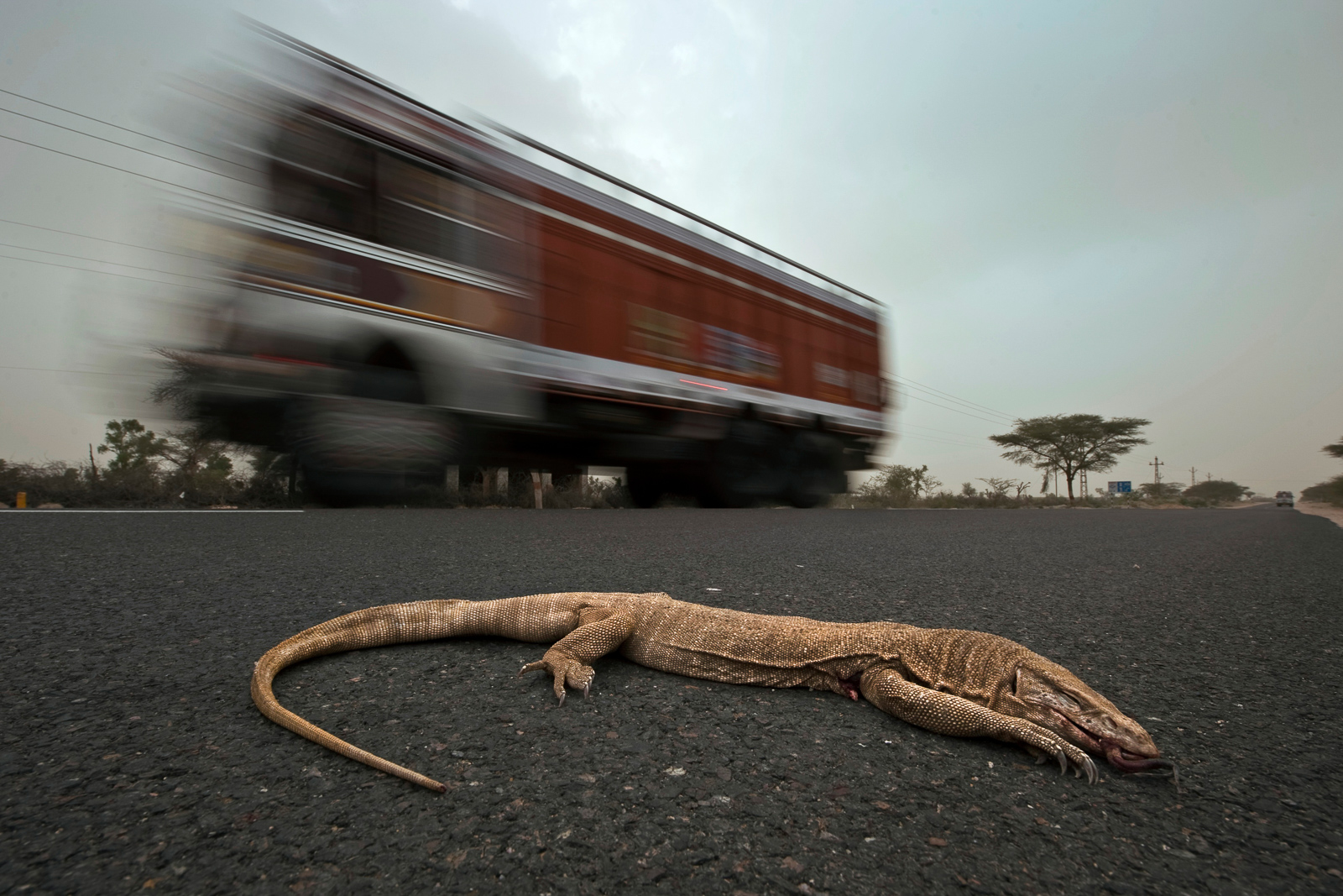 A monitor lizard run-over by a vehicle on a highway. Linear intrusions like roads are not only barriers for animal movement, but also attract some species such as reptiles to bask on the hot surface making them vulnerable to road kill.